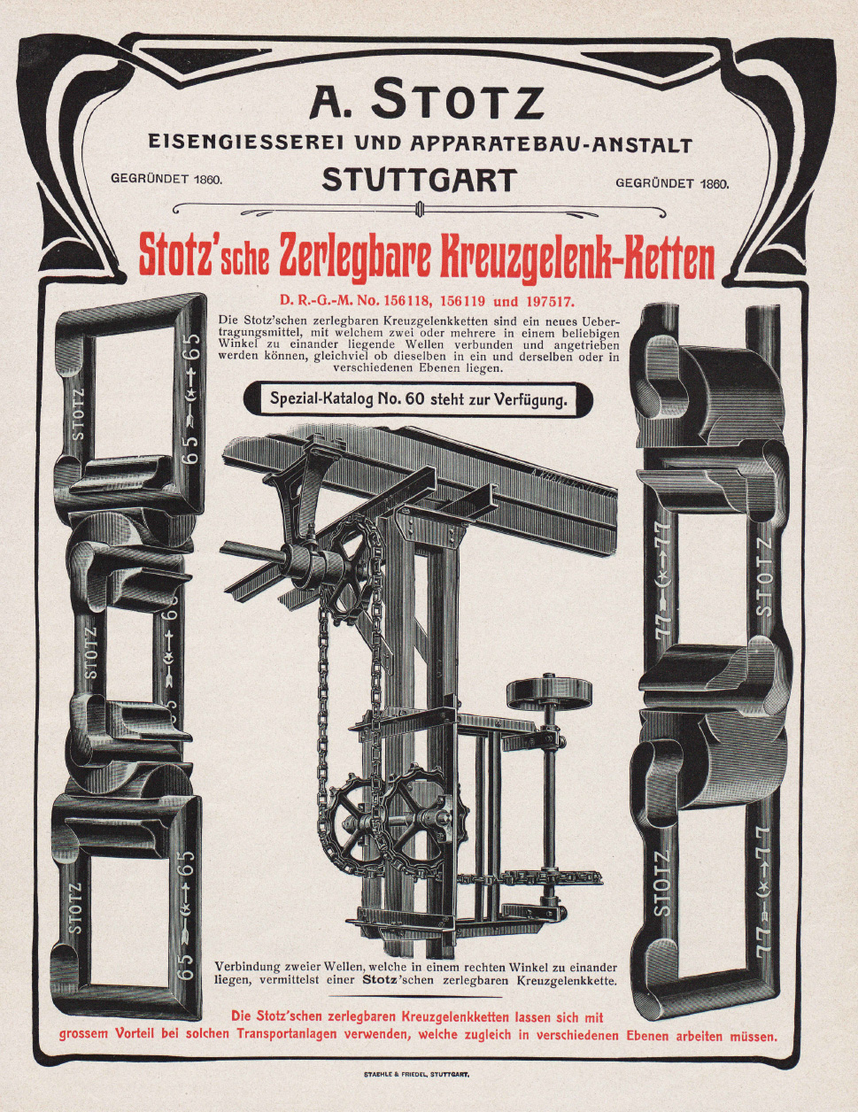 Advertisement of Albert Stotz Foundry Stuttgart in the Swiss journal 'Schweizer Bauzeitung' 1904